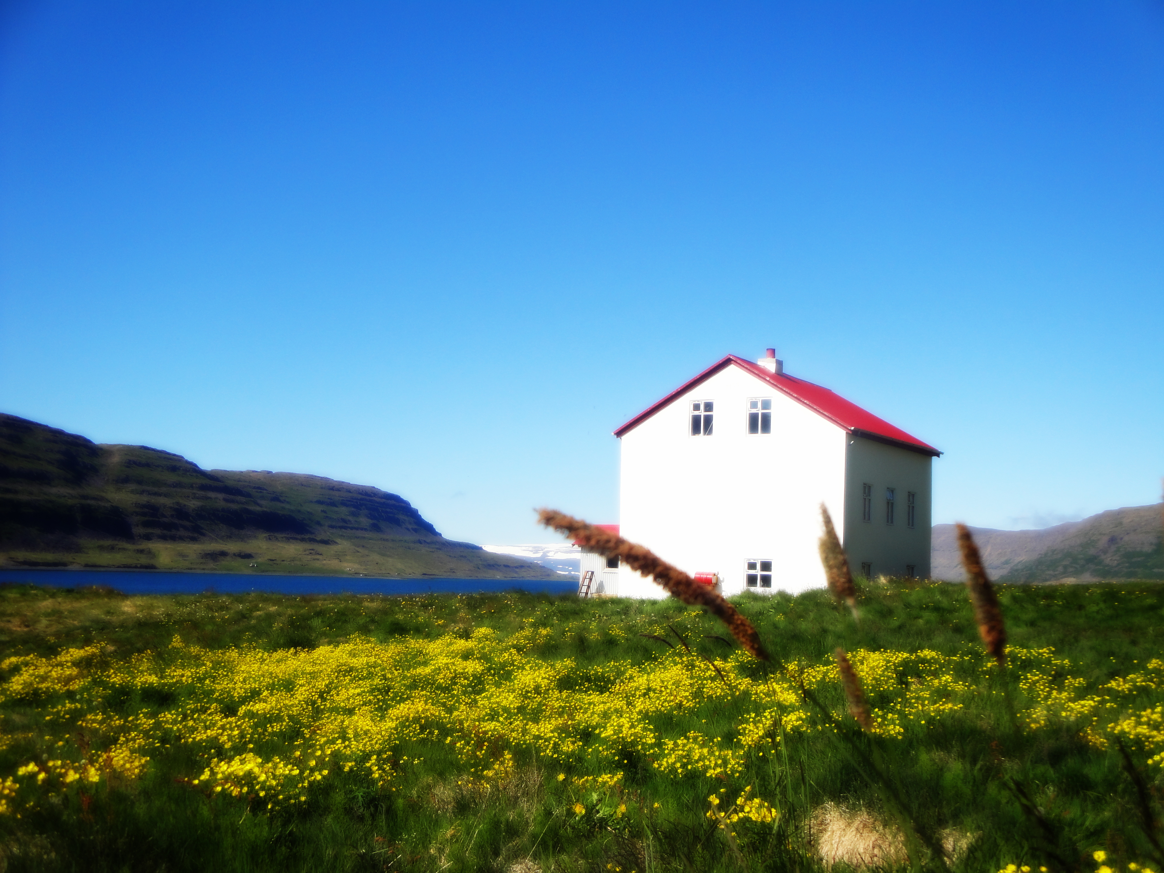 Family house